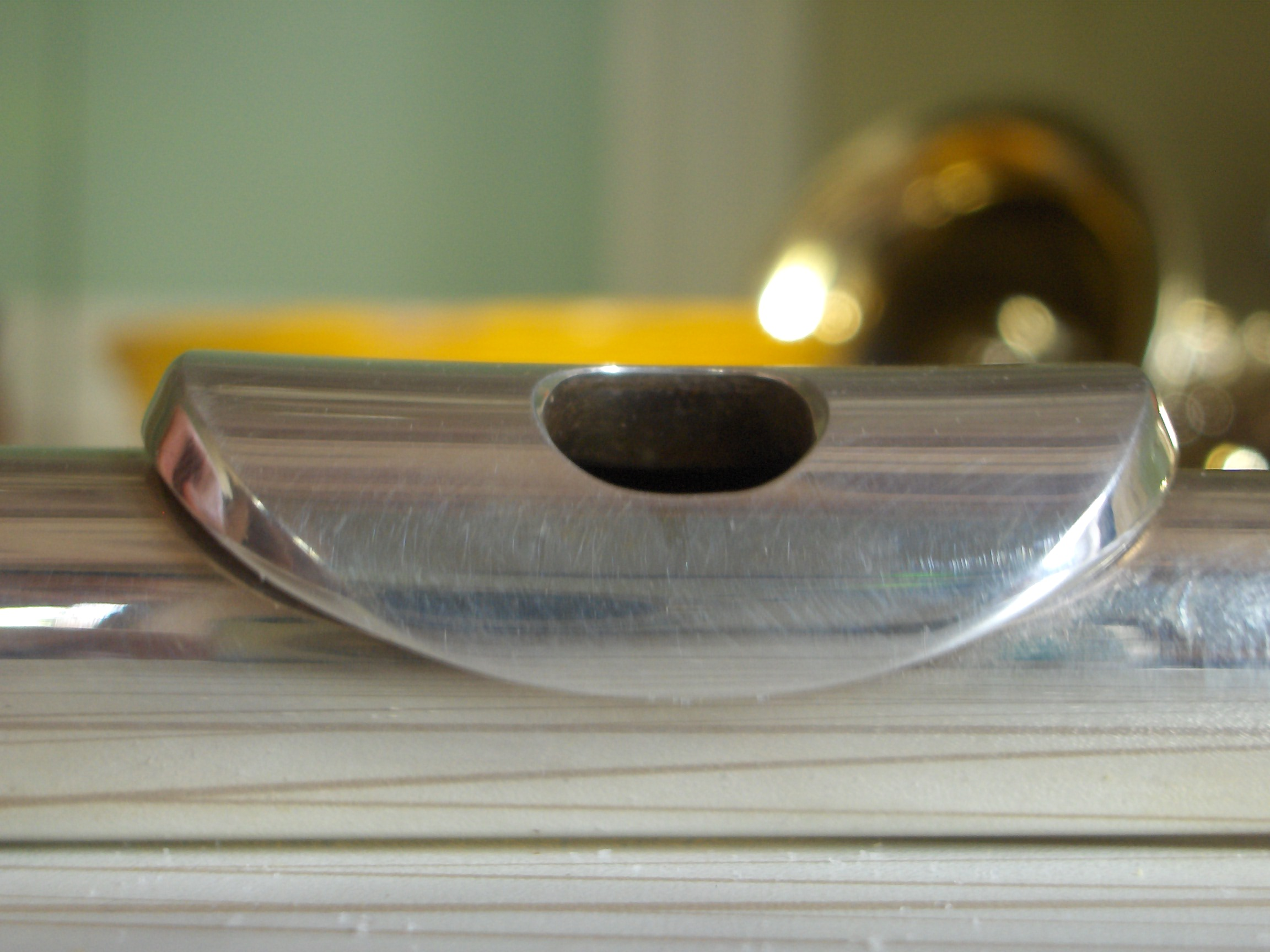 Detail of flute head (Yamaha concert flute)